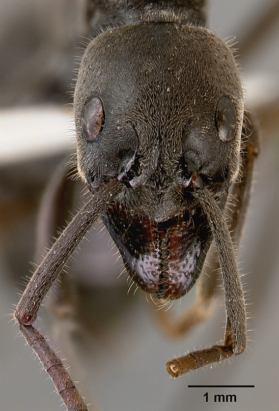 Head view of ant Pachycondyla analis specimen sam-hym-c000749b.